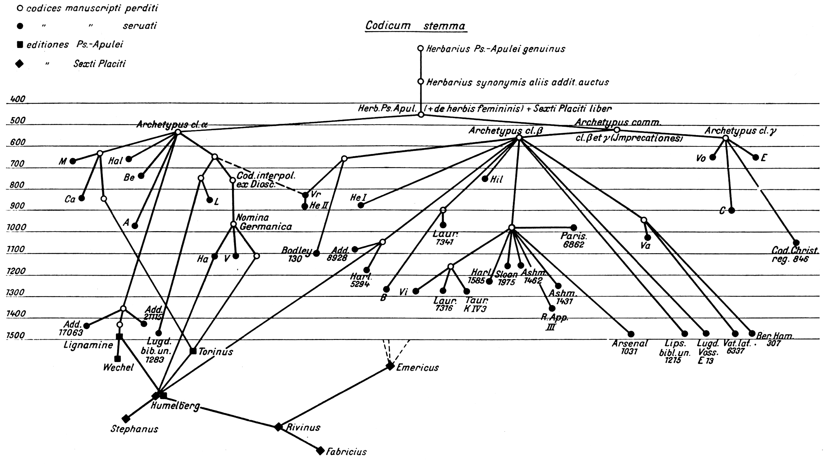 Scheme of descent of the manuscipts of Pseudo-Apuleius Herbarius